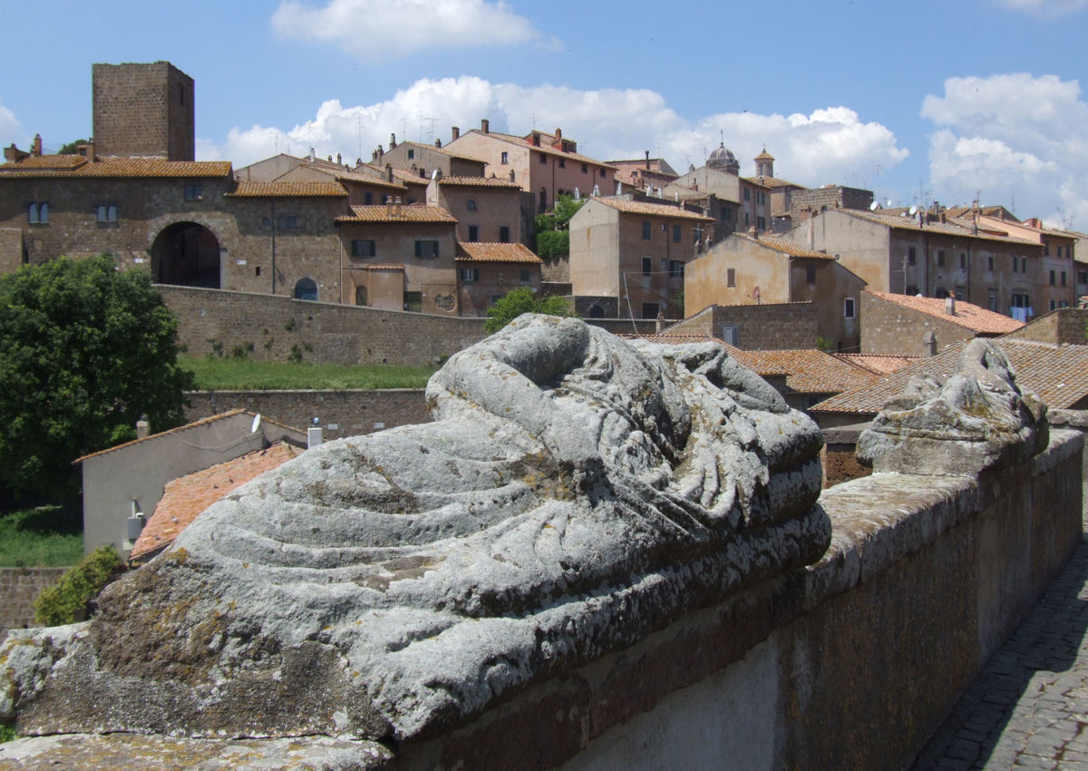 Tuscania, Italy